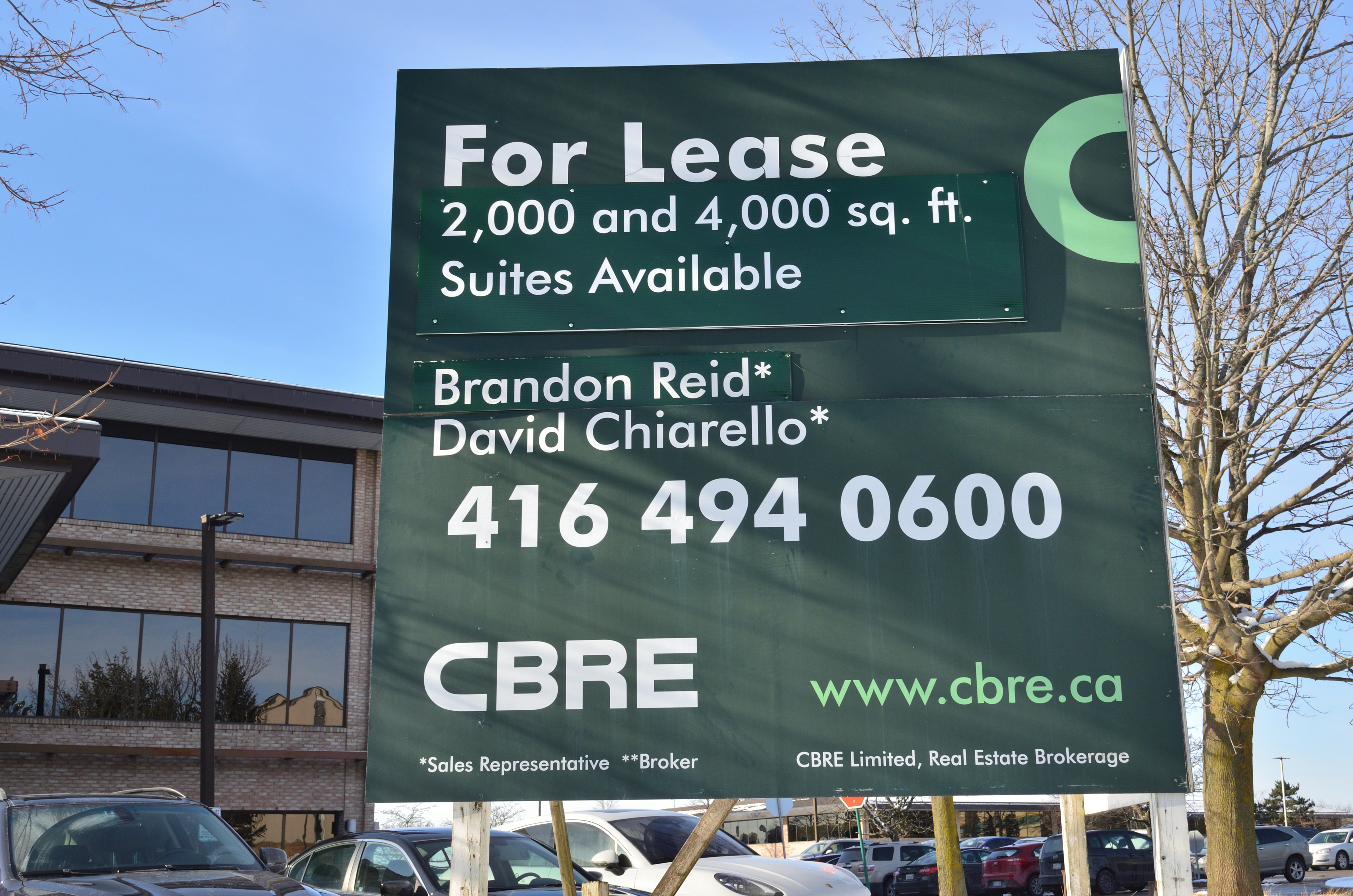 Offices for lease on Renfrew Drive in Markham, Ontario - CBRE listing